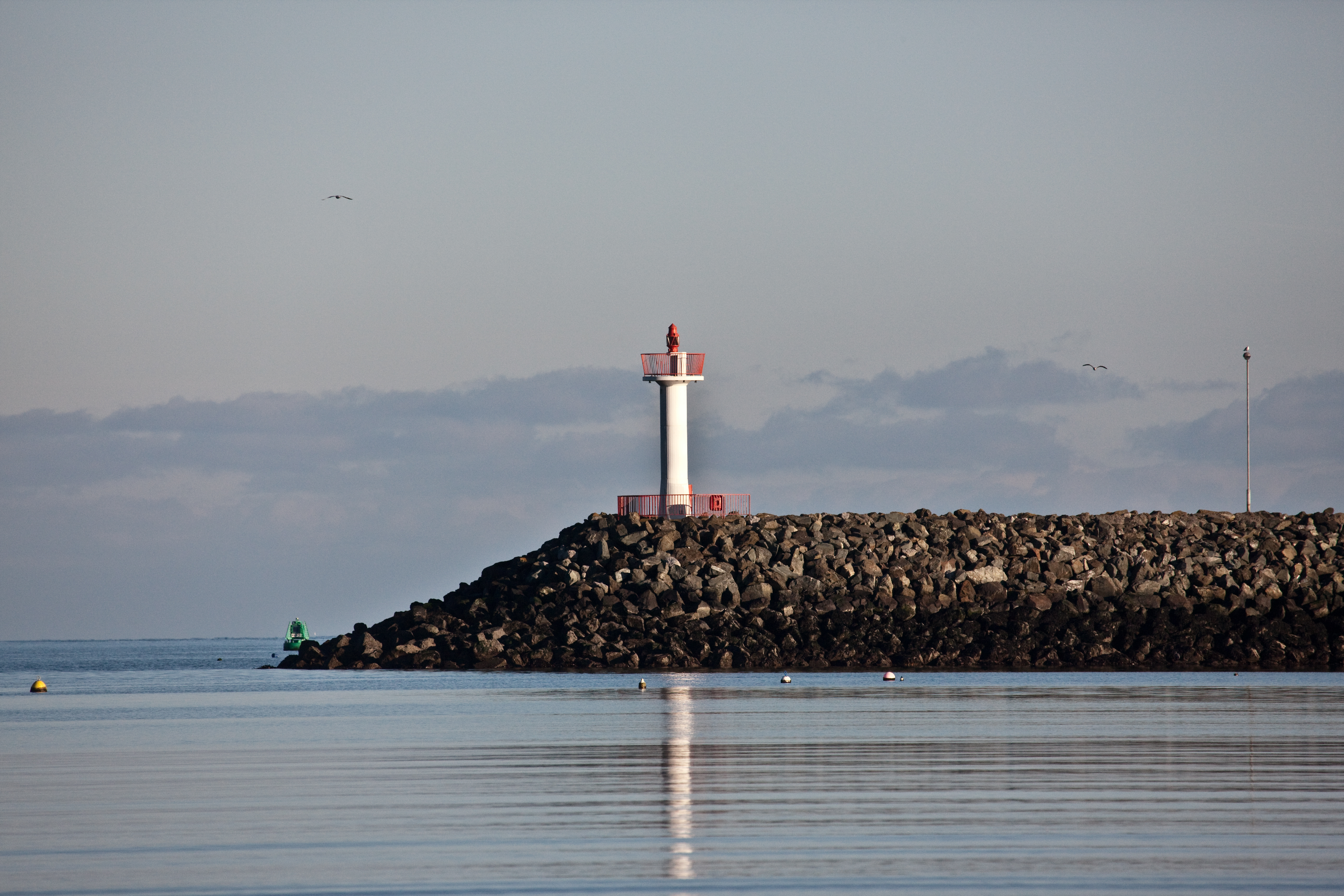 New Howth Harbour Light. Established in 1982 due to the enlargement of the harbour pier and located some meters away from old lighthouse.